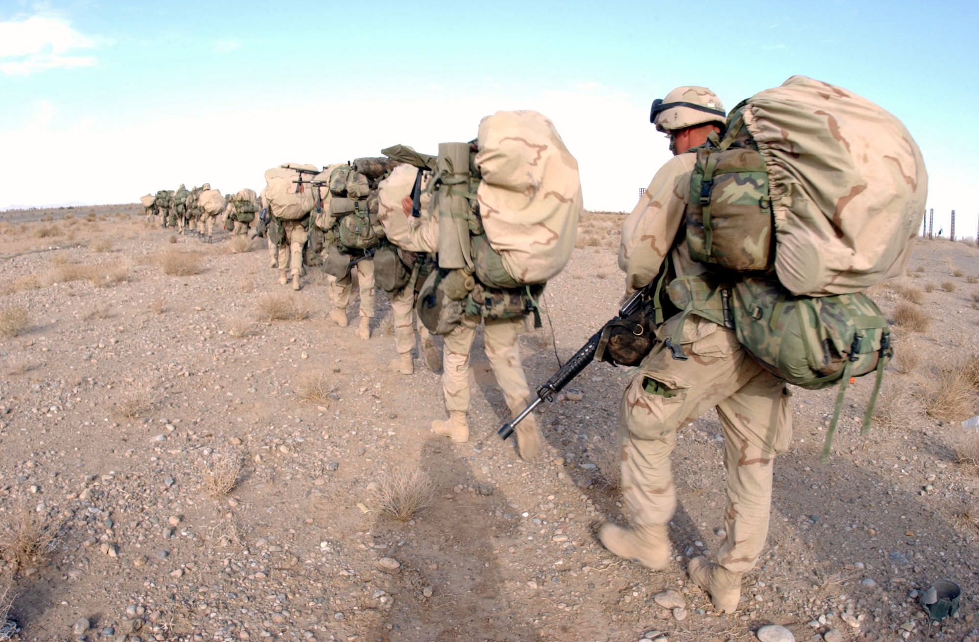 Kandahar, Afghanistan (December 25, 2001) -- As Christmas Day moves on at a forward operating base in Kandahar, Afghanistan, U.S. marines of the 26th Marine Expeditionary Unit (Special Operations Capable) move out to the front lines to defend and maintain security throughout the perimeter. U.S. marines are in Afghanistan operating in support of Operation Enduring Freedom.